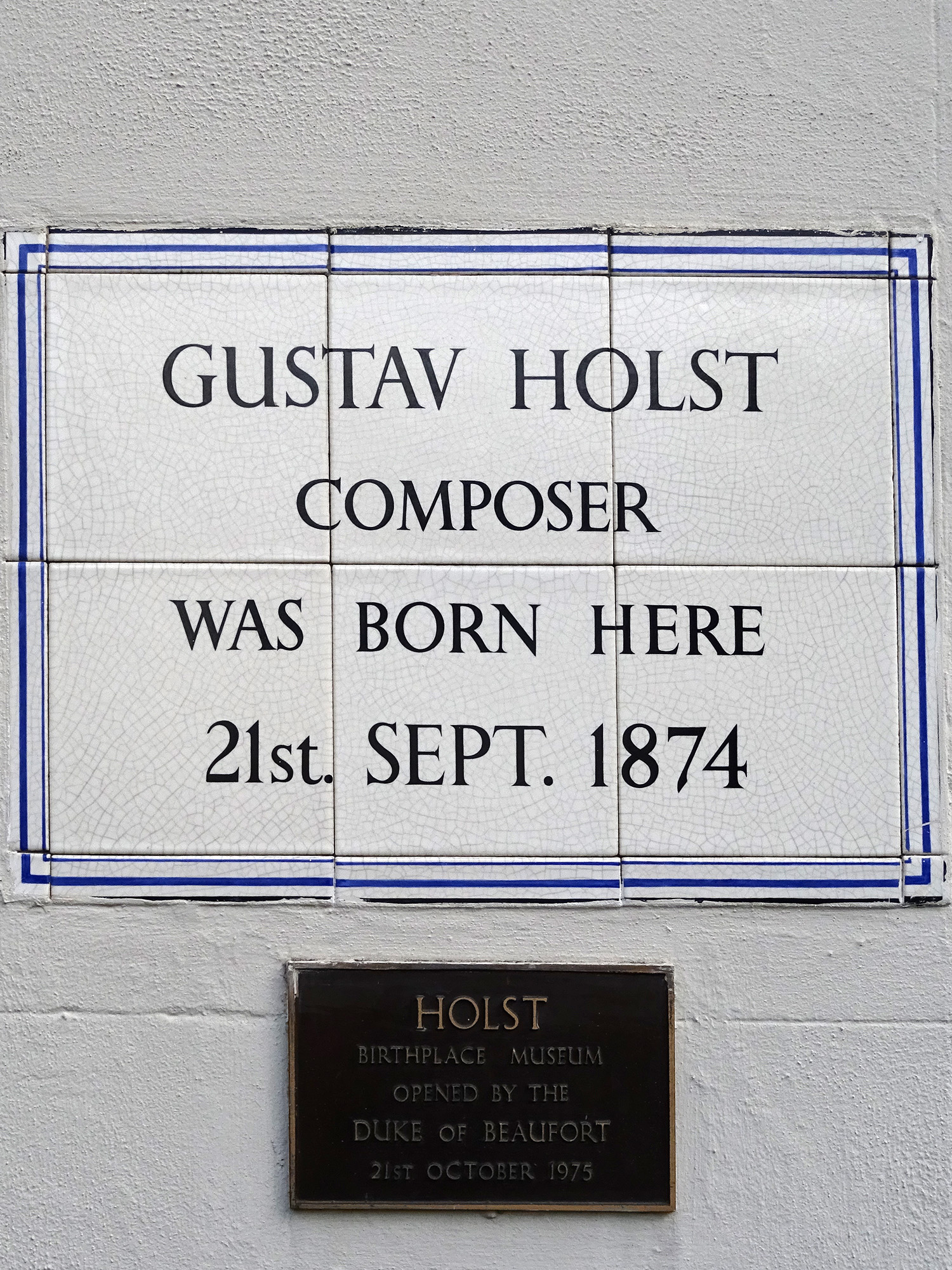 Plaque erected 30th June 1949 at - 4 Clarence Road Cheltenham GL52 2AY (Holst Birthplace Museum)